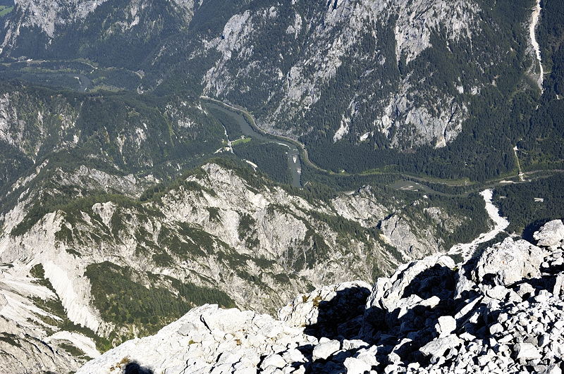 River Enns from Hochtor